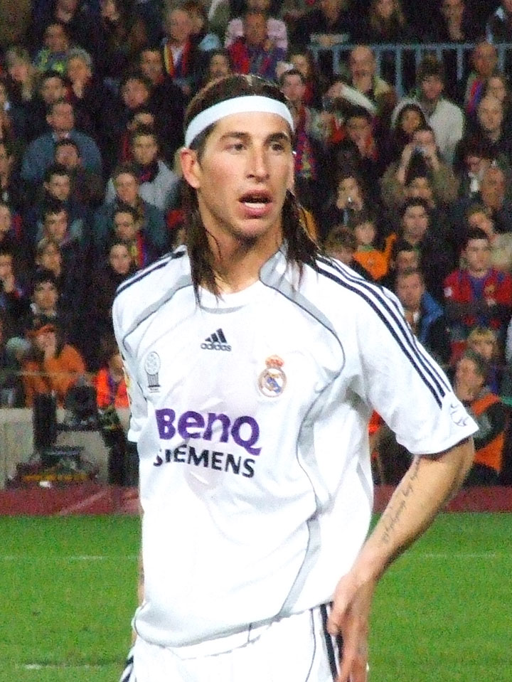 Sergio Ramos, Real Madrid's player, during the match FC Barcelona-Real Madrid.